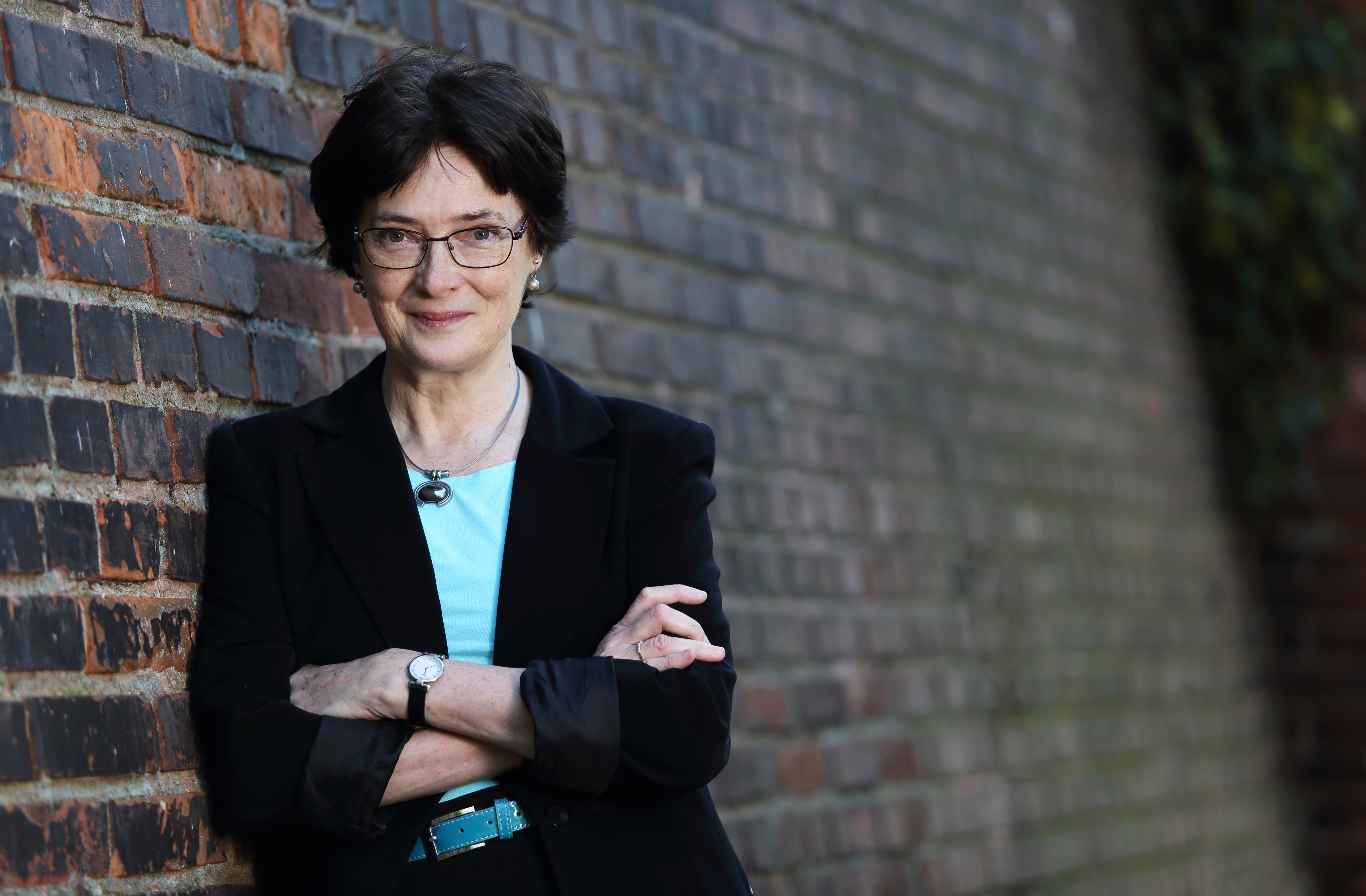 Eva Zažímalová (born 18 February 1955) is a Czech biochemist and since March 2017 the president of the Czech Academy of Sciences.